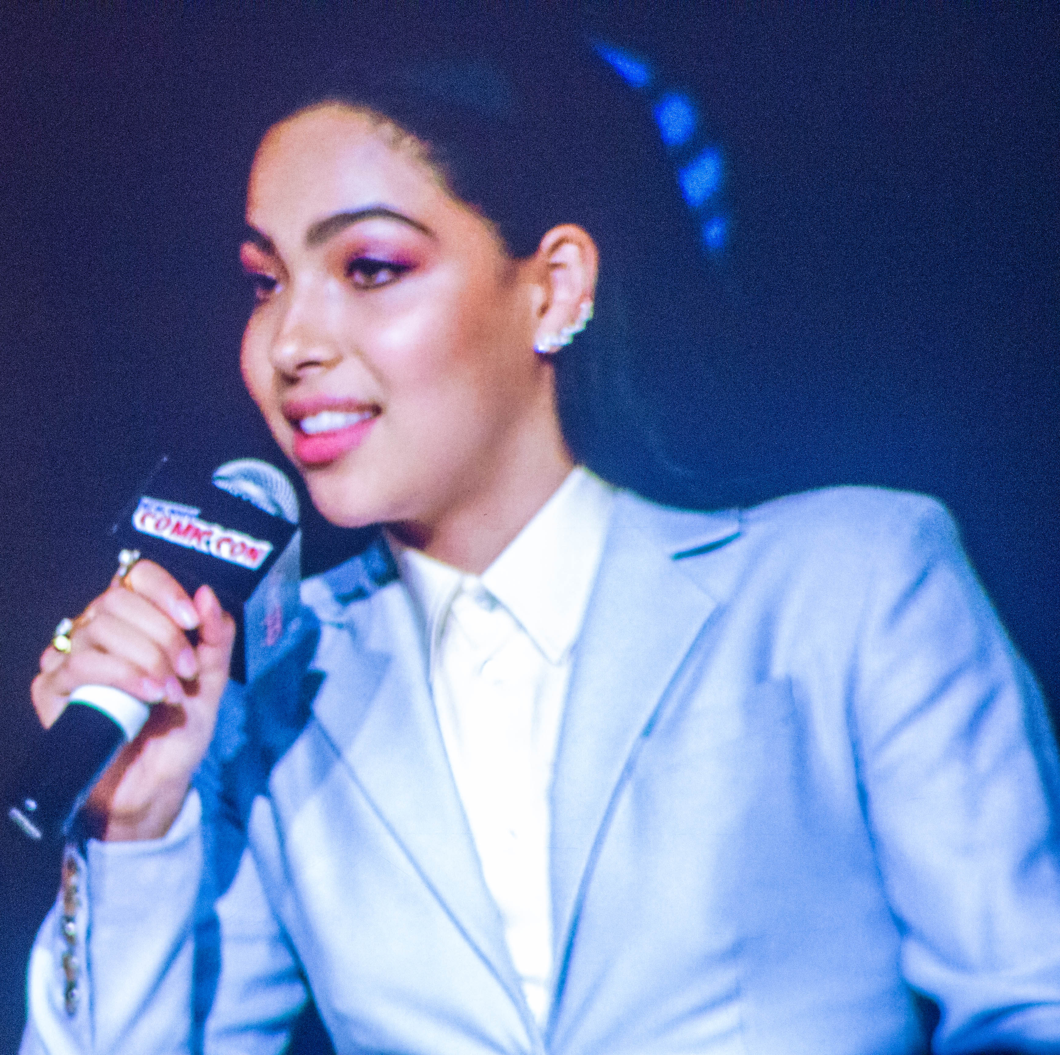 Actress Allegra Acosta speaks at the Runaways panel at the 2017 New York Comic Con.